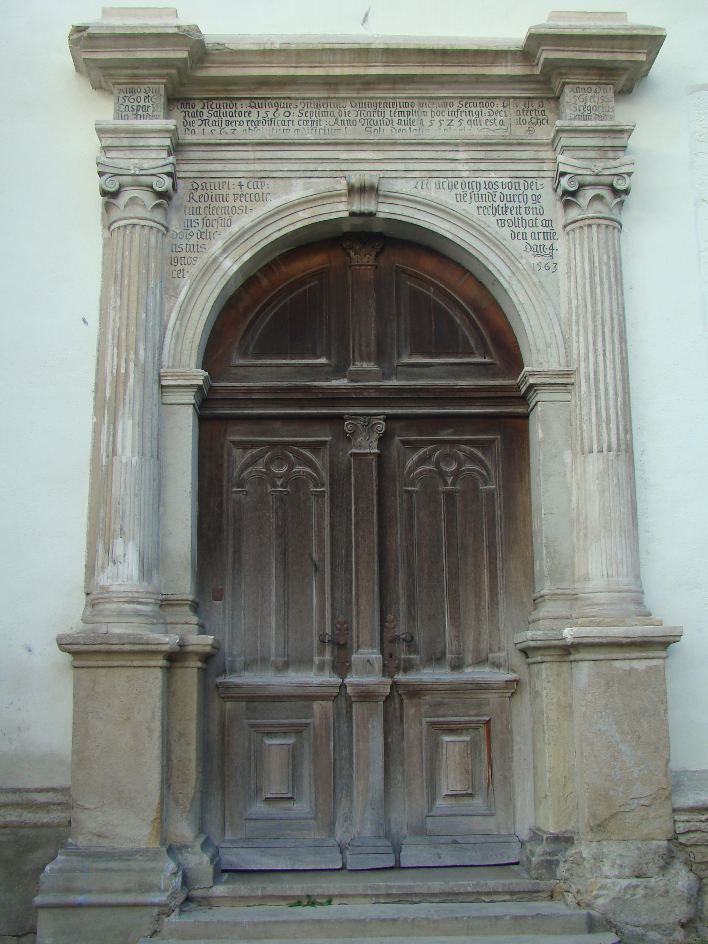 Lutheran church in Bistrița